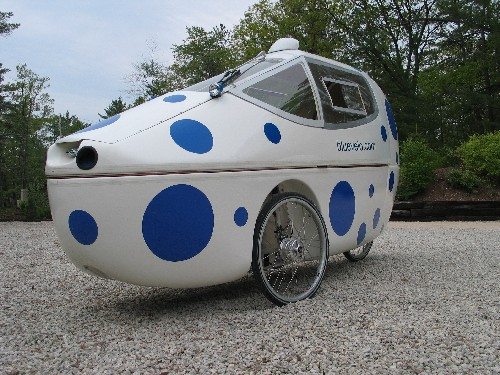 Tricycle